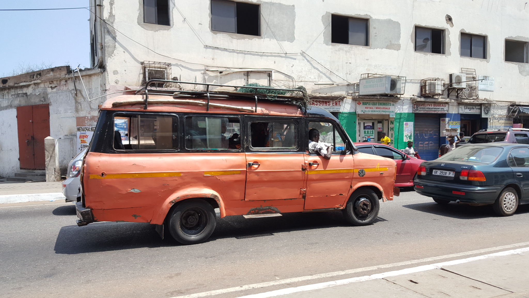 A tro tro driver on his way